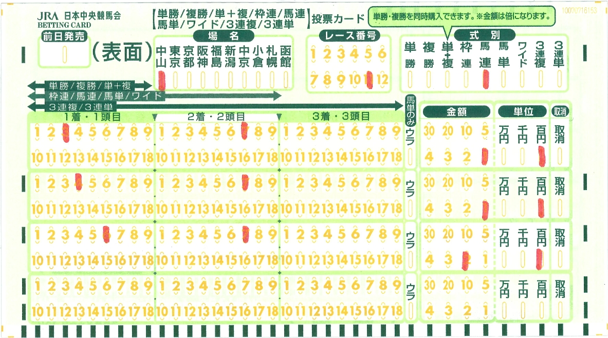 Optical mark recognition form in JRA Fukushima Racecource.